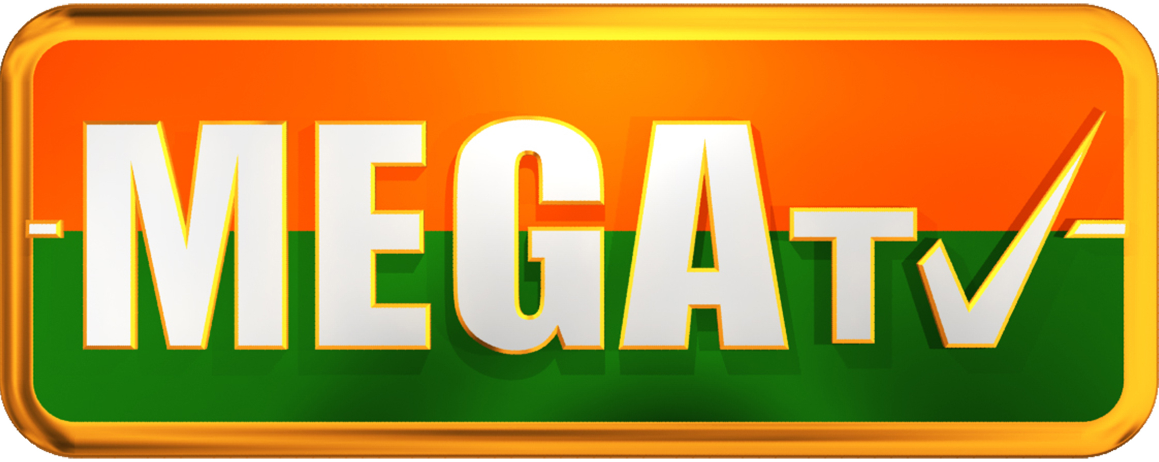 Mega TV Tamil Channel logo